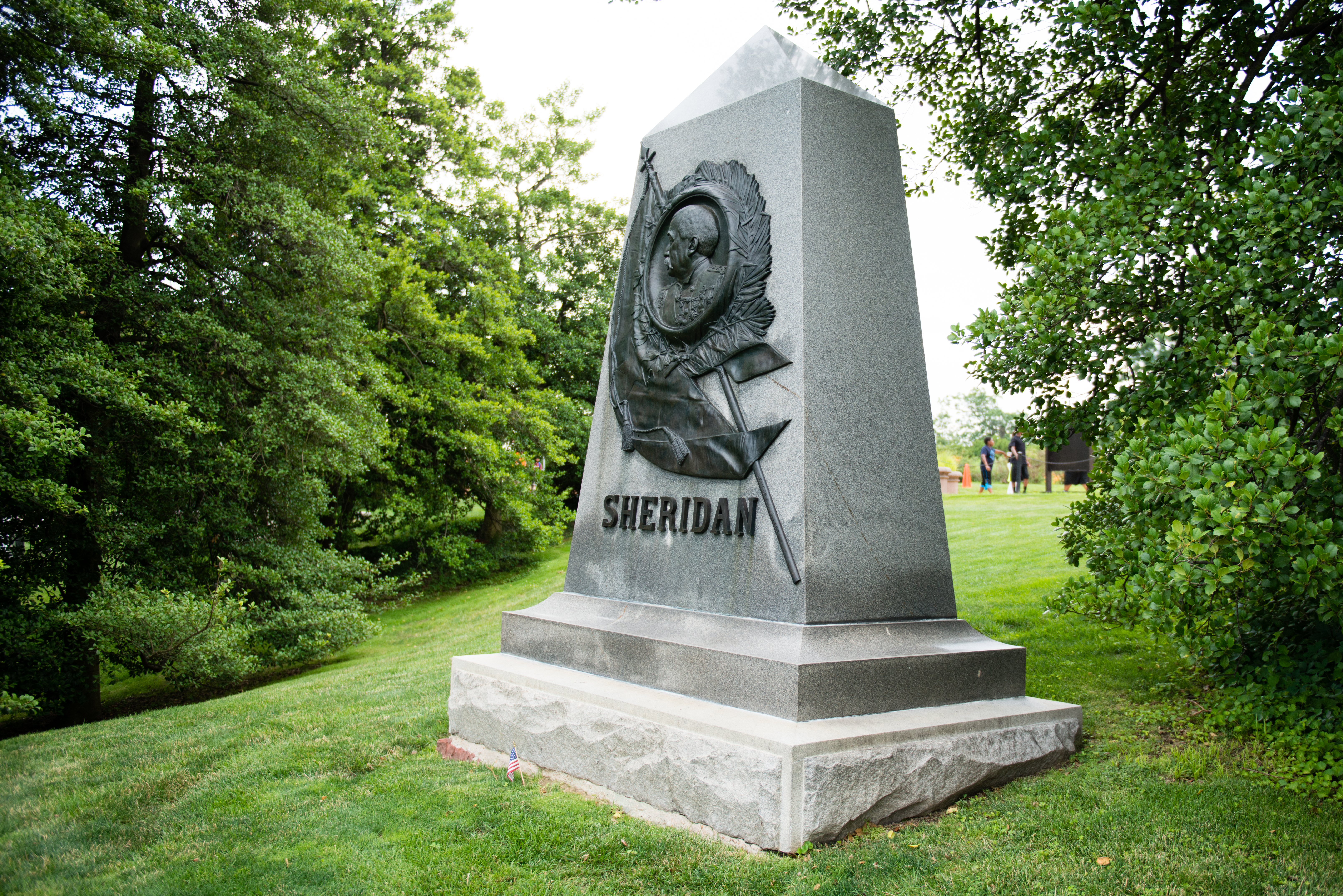 Gen. Philip Henry Sheridan, March 6, 1831 – Aug. 5, 1888, was a career U.S. Army officer and a Union general during the American Civil War. In 1864, he defeated Confederate forces in the Shenandoah Valley and his destruction of the economic infrastructure of the Valley, called “The Burning” by residents, was one of the first uses of scorched earth tactics in the war. (U.S. Army photo by Rachel Larue/released)